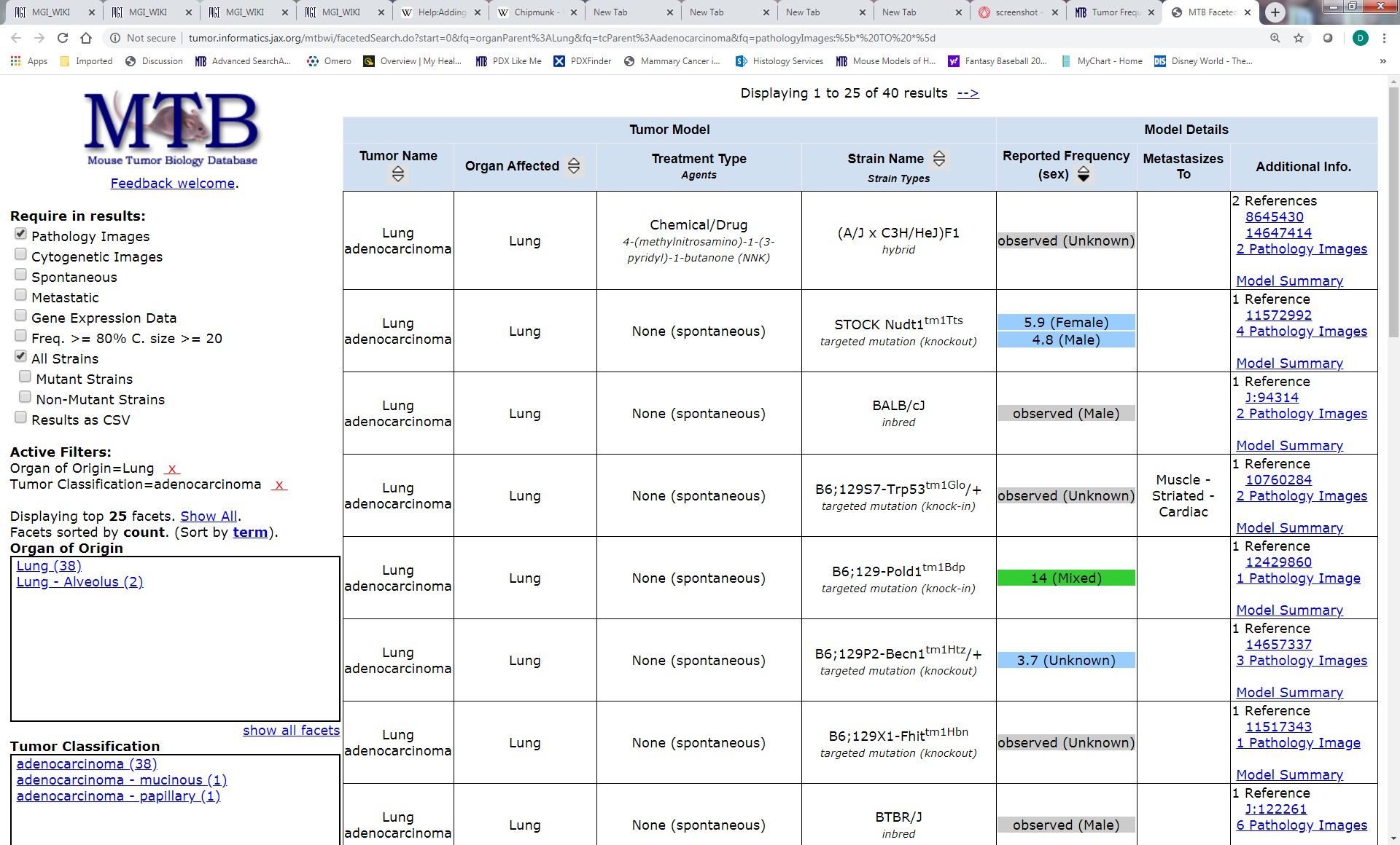 This picture presents the results from a search for mouse models of lung adencarcinoma with pathology images using the Mouse Models of Human Cancer database.